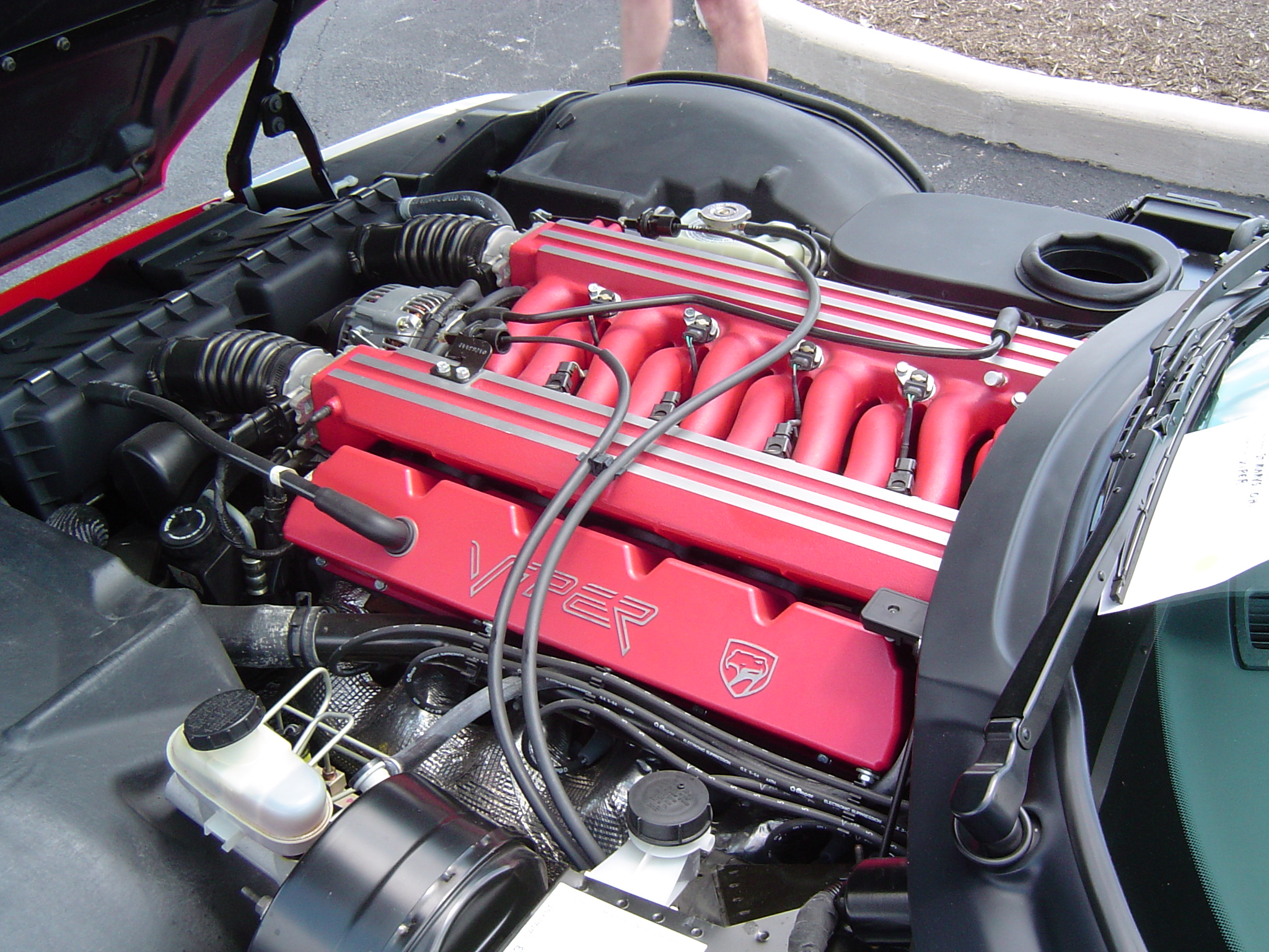 Dodge Viper V10 8.0L engine.